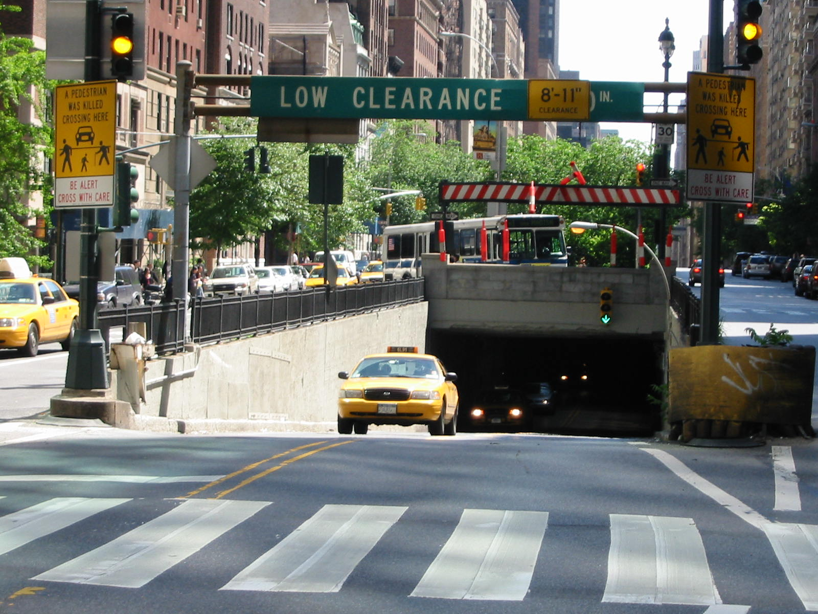 The Murray Hill Tunnel south of Grand Central Terminal in New York City, originally built for the New York and Harlem Railroad. Taken May 29, 2004 by User:SPUI.